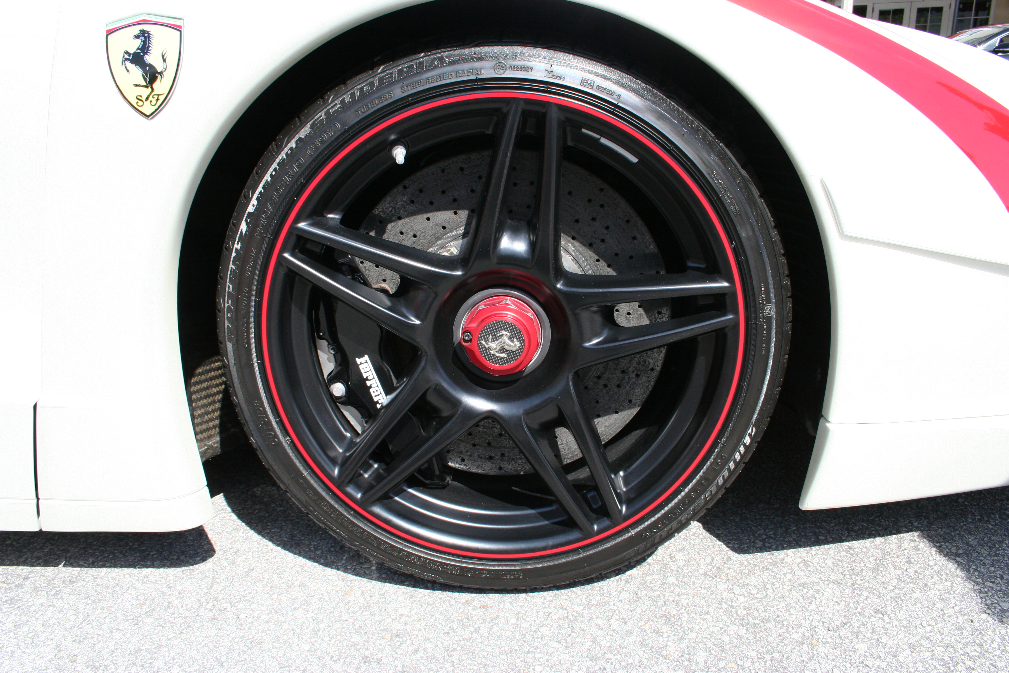 Ferrari FXX right front wheel.